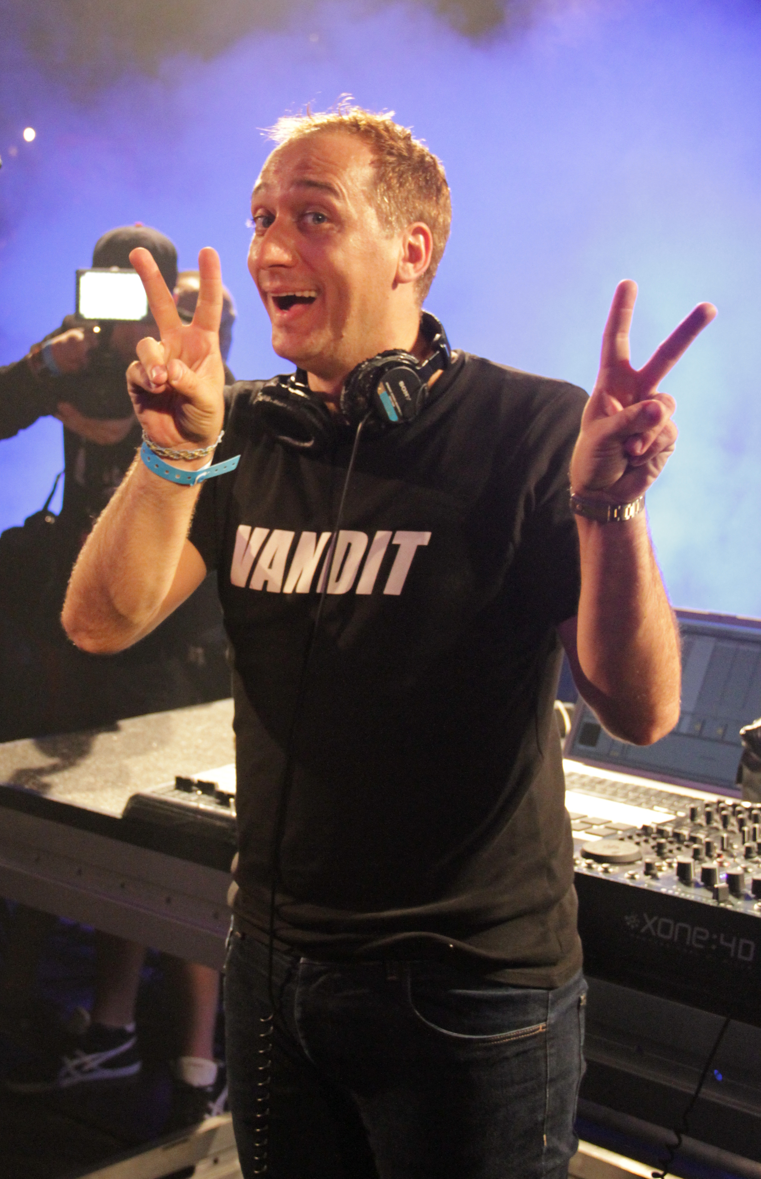 Paul van Dyk